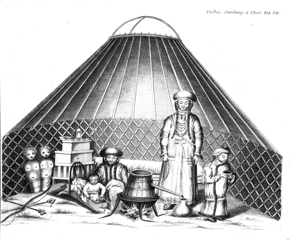 Mongol family. In the tent on the left side two Ongghot's, ancestor spirits represented by dolls